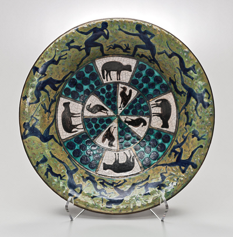 Charger; Ceramics-Pottery